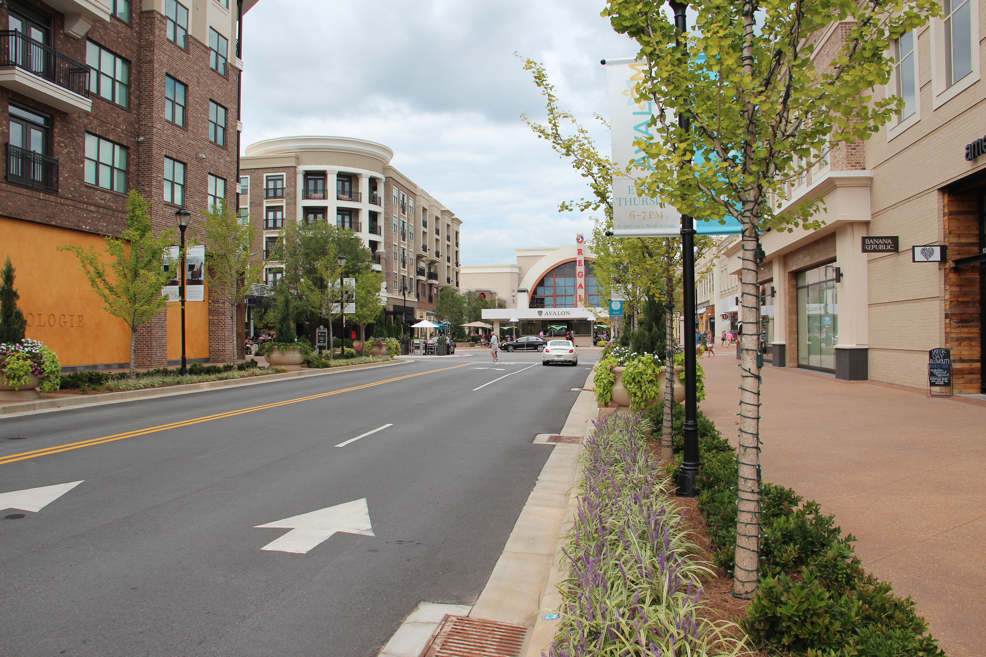 Avalon, Alpharetta, Georgia